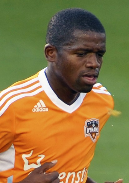 Oscar Boniek Garcia, a midfielder for the Houston Dynamo's versus warming up for a game against the Sporting KC on July 7th, 2012.